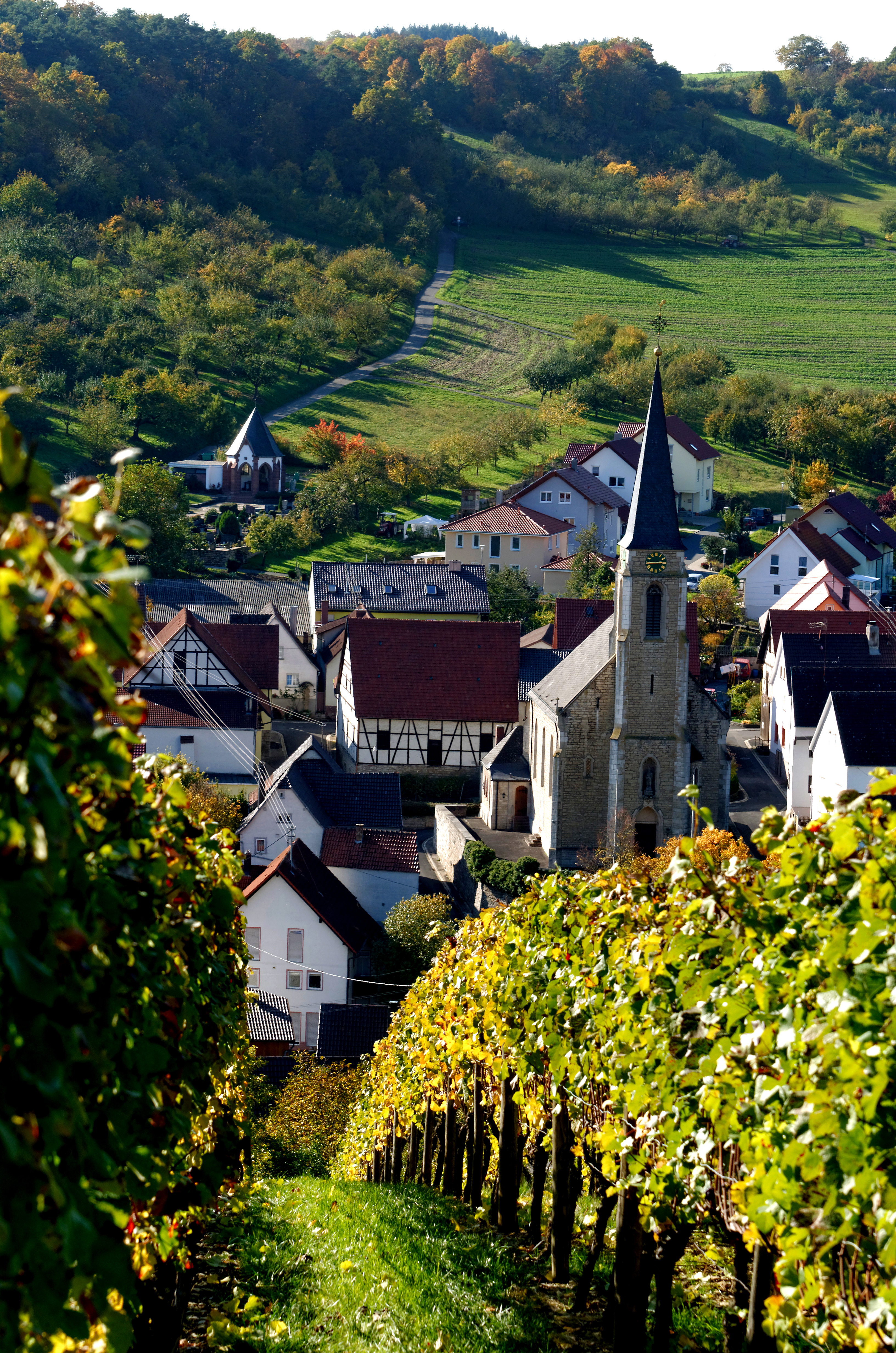 The beautiful wine village Beckstein.